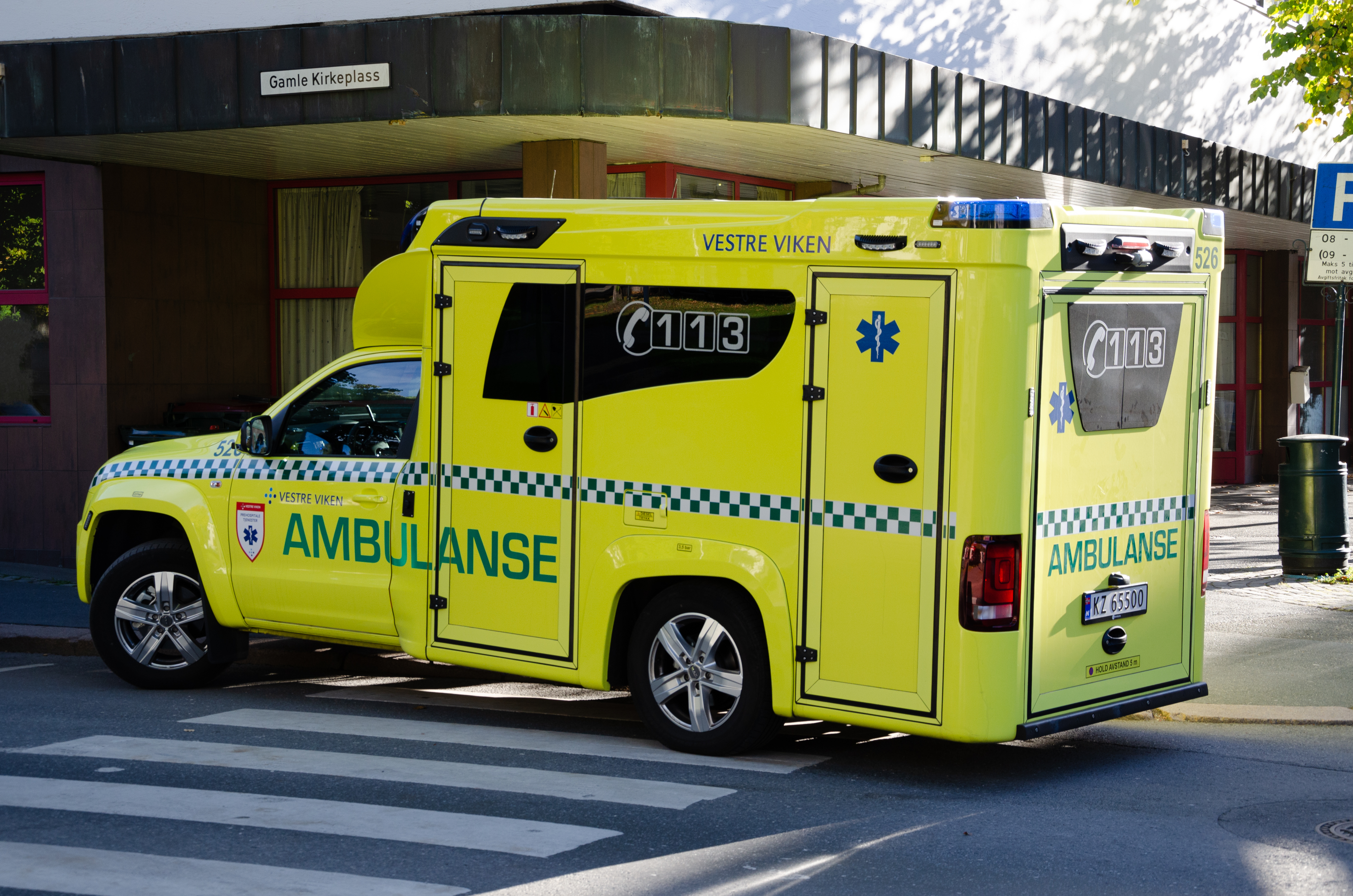 Volkswagen Amarok Tamlans ambulance.